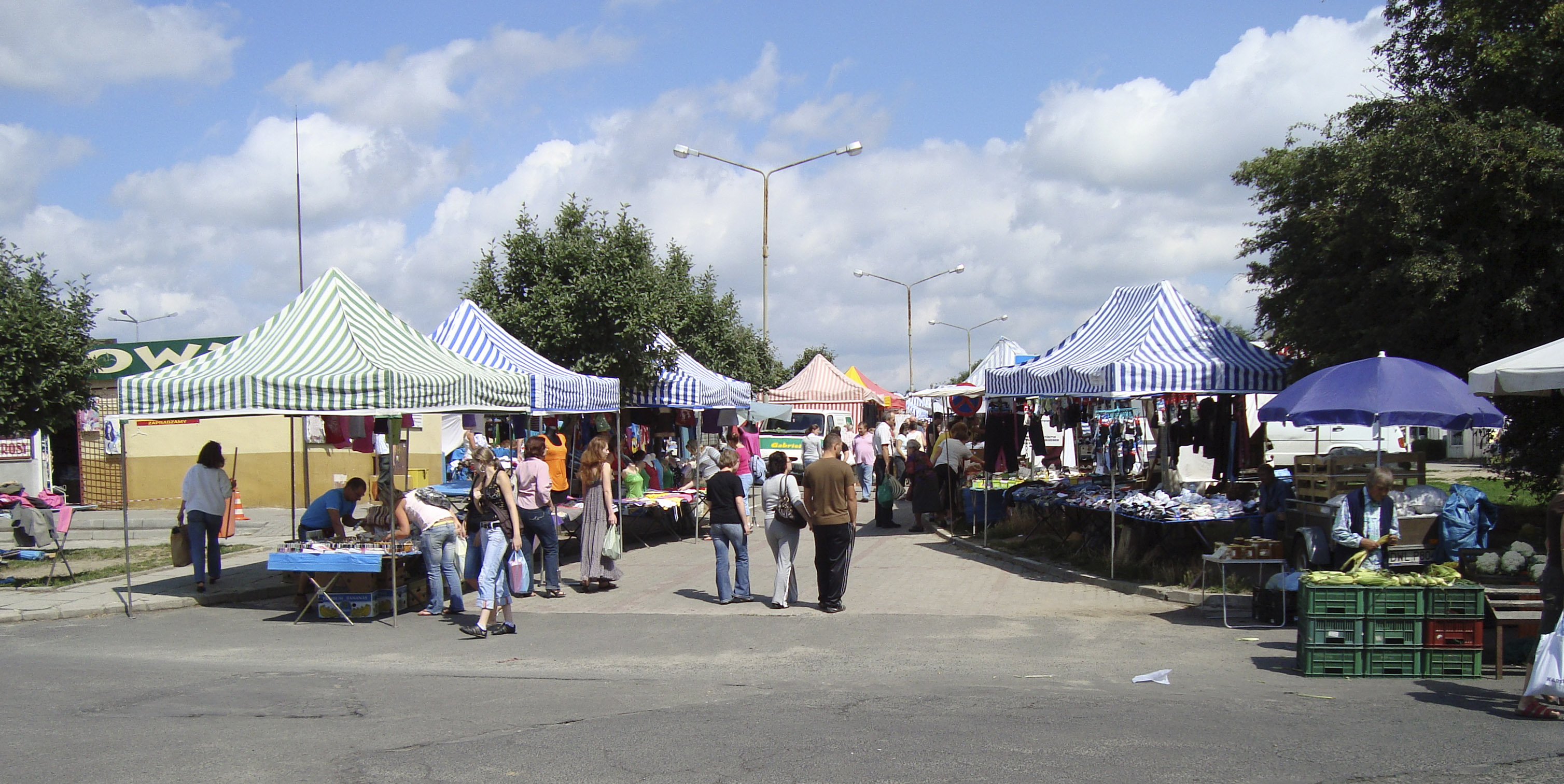 Market in Brzeg Dolny